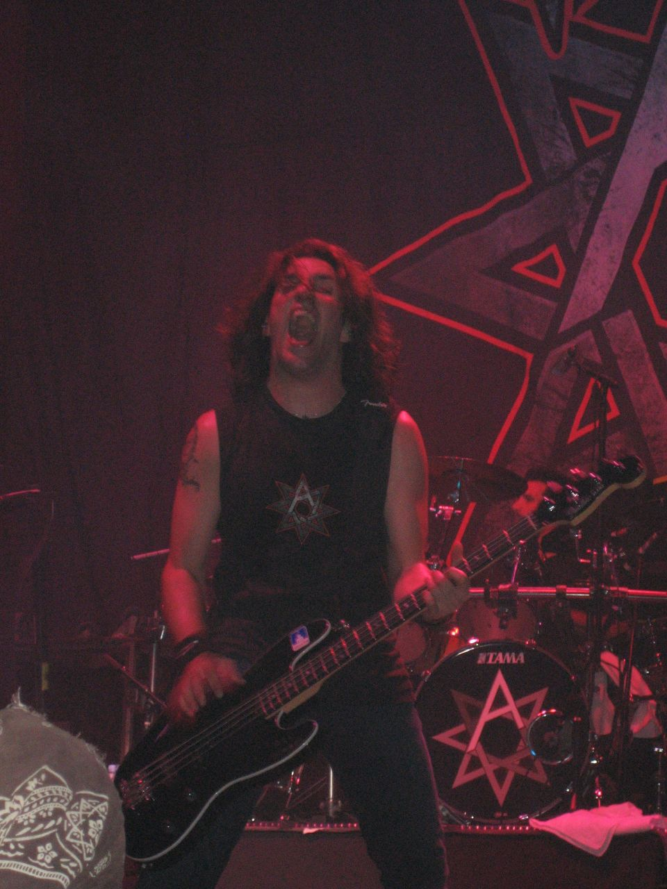 Frank Bello of Anthrax,Judas Priest Retribution 2005 Tour